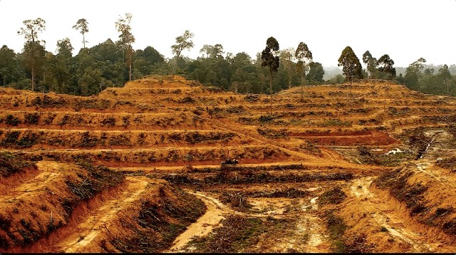 Illegal deforestation for Palm Oil plantation